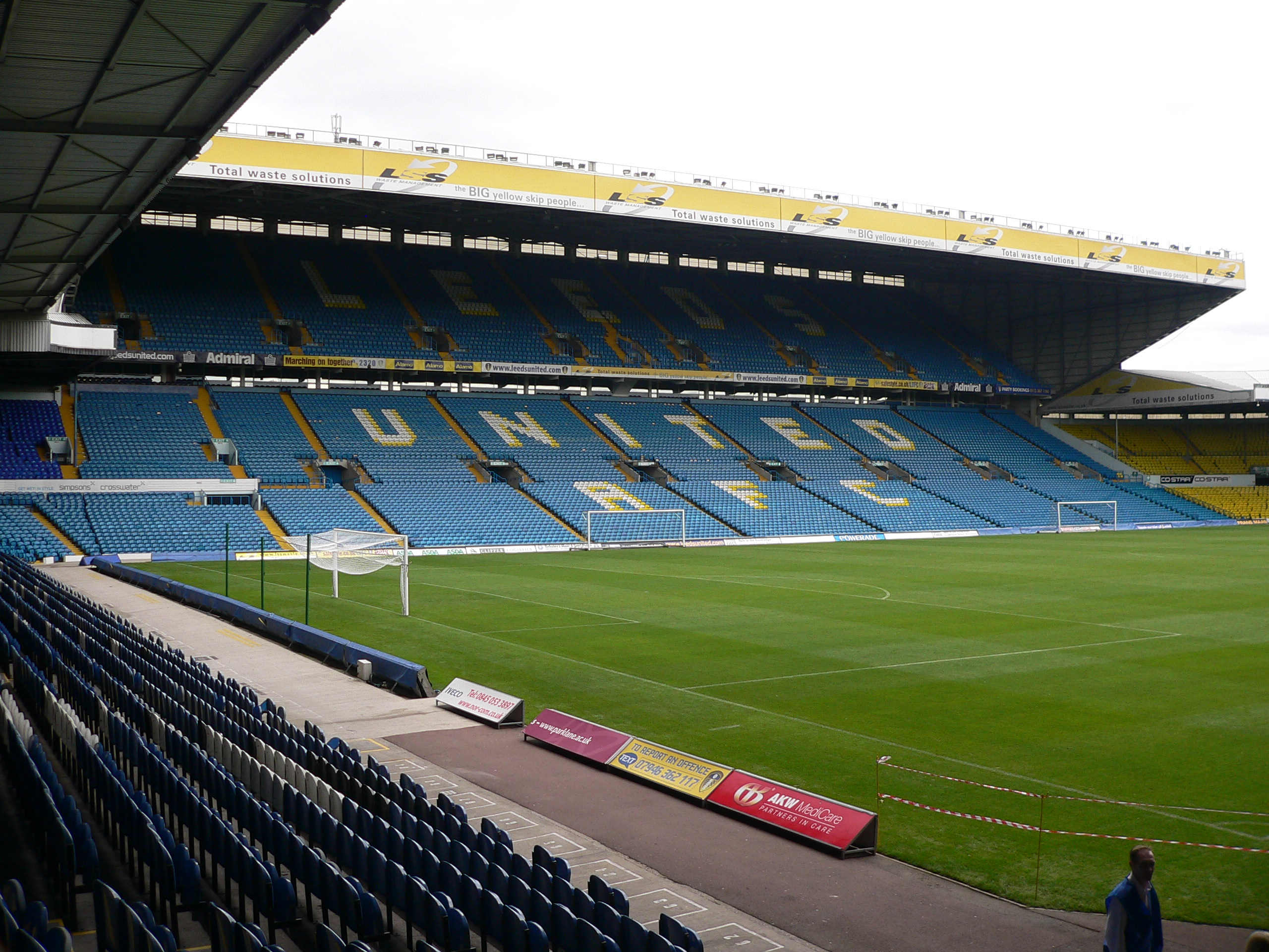 Leeds United